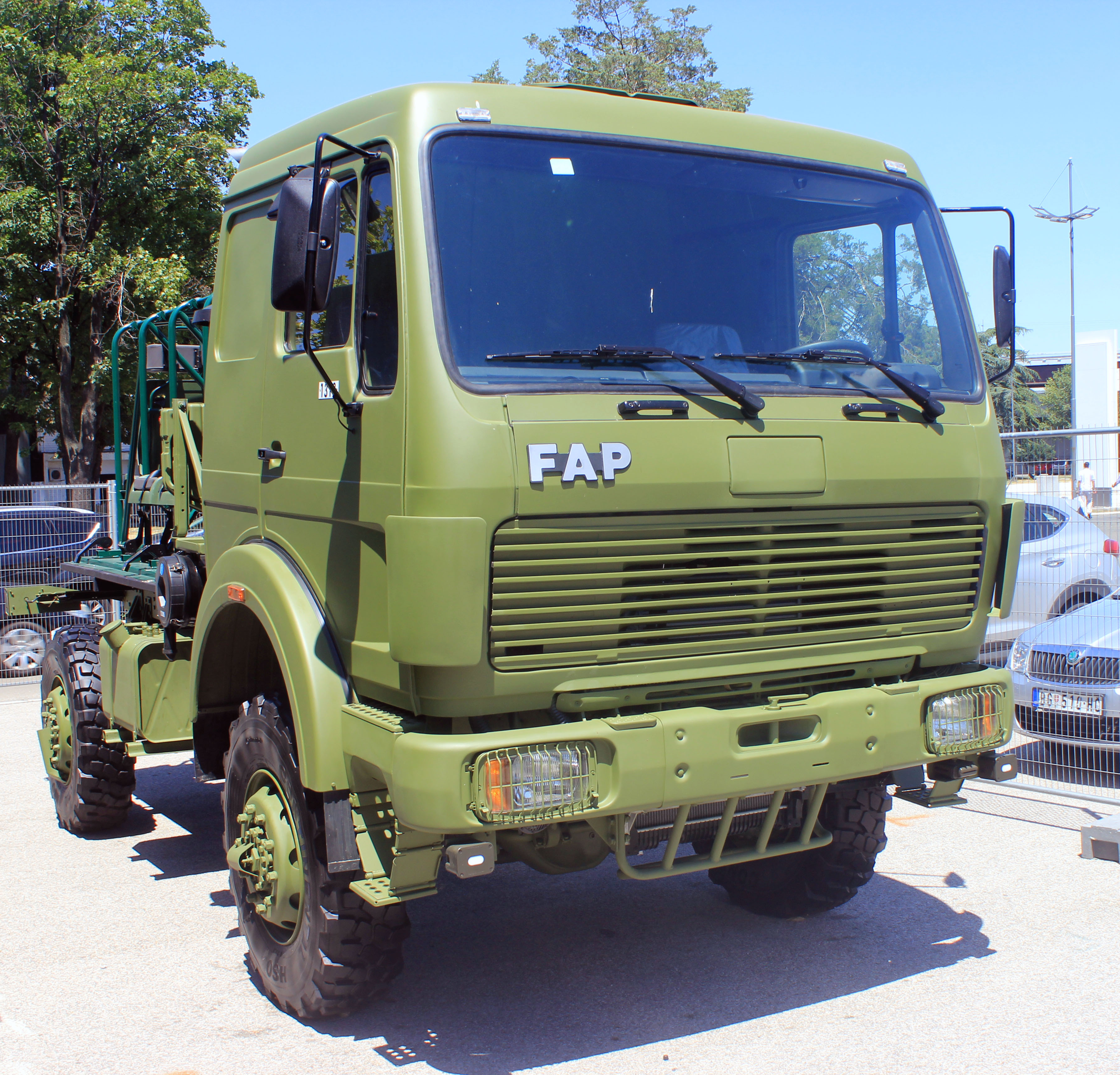 New FAP 1318 BDS/AV 4x4 military truck on display at Partner 2017 military fair.